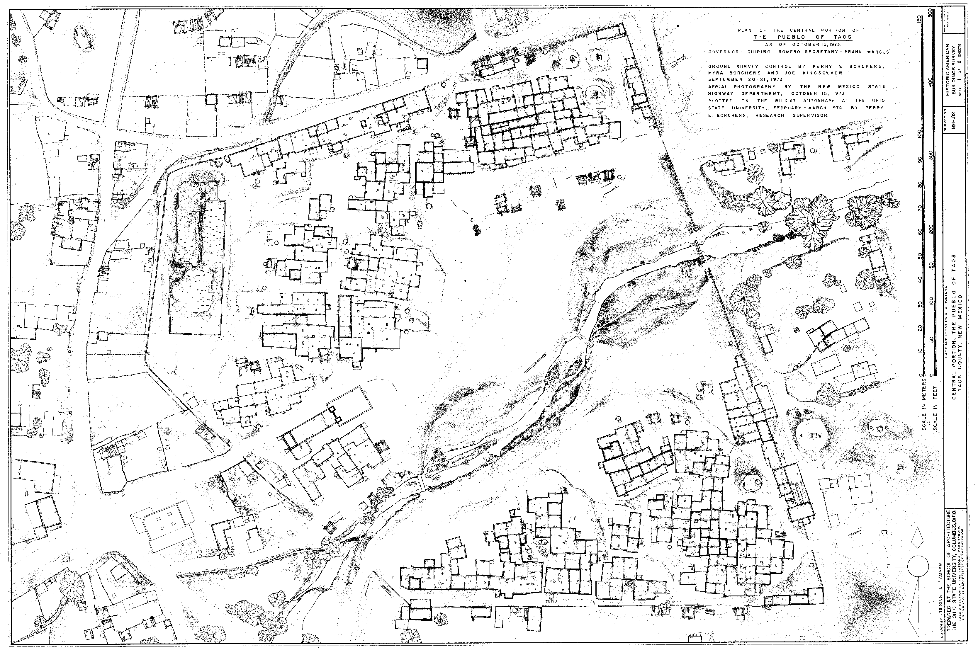 Map of Taos Pueblo, New Mexico, 1973, Historic American Buildings Survey